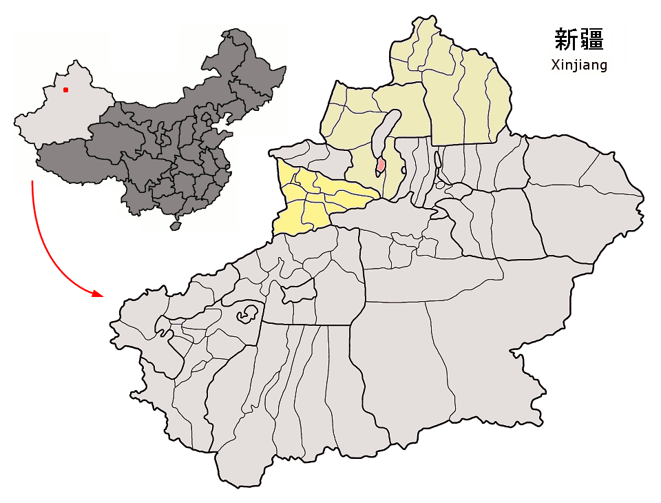 Location of Kuitun City (pink) and Ili Prefecture (yellow: subdivisions under direct administration of Ili Prefecture, ecru: subdivisions under administration of Tacheng and Altay Prefectures) within Xinjiang autonomous region of China Map drawn in september 2007 using various sources, mainly : Xinjiang Uygur autonomous region administrative regions GIS data: 1:1M, County level, 1990 Xinjiang Counties map from